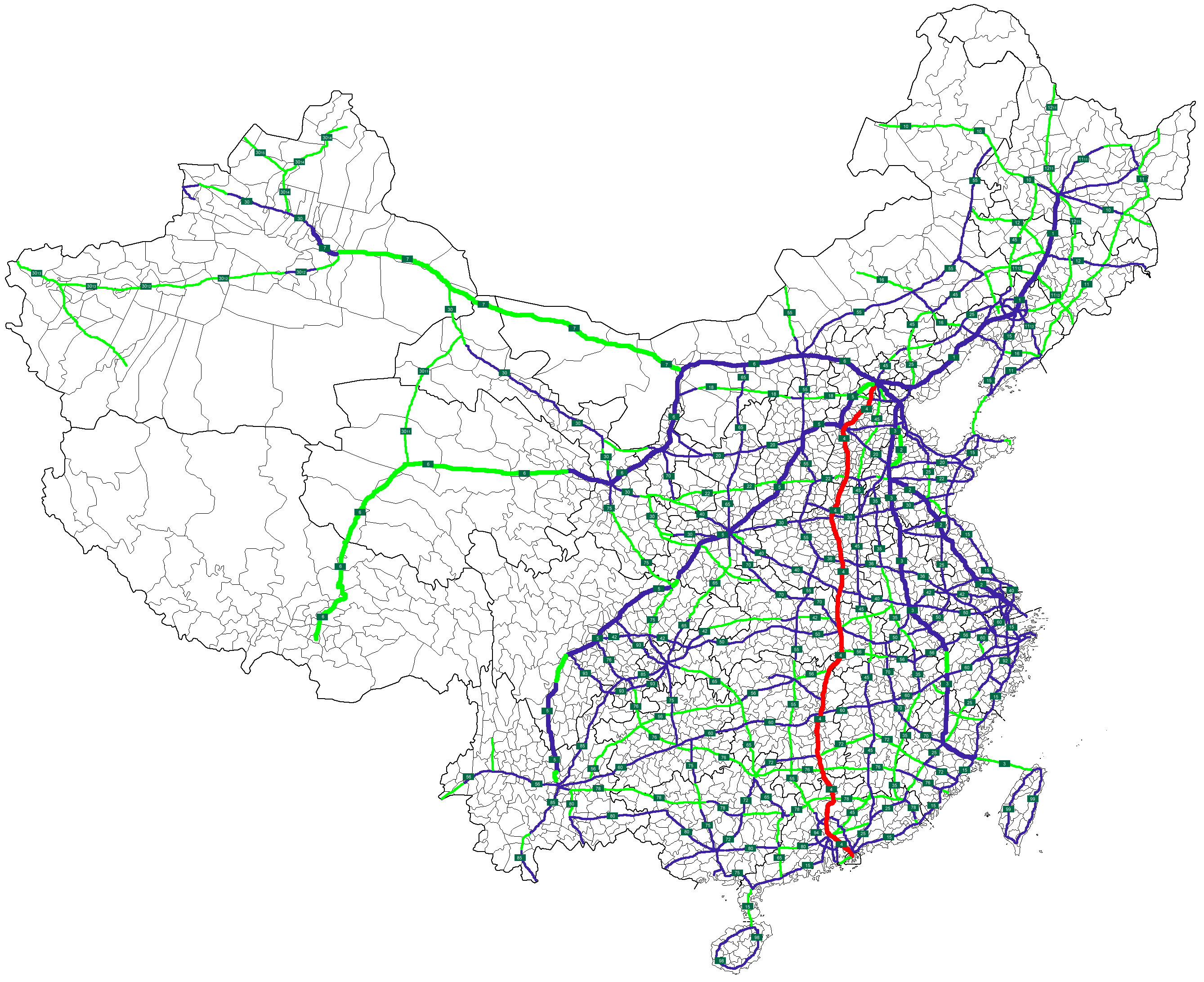 Source file(Map of NTHS Expressways of China.png) was uploaded ASDFGH at en.wikipedia. Later version(s) were uploaded by Nima Farid at en.wikipedia. Modification for NTHS Expressway G4 is my own work.